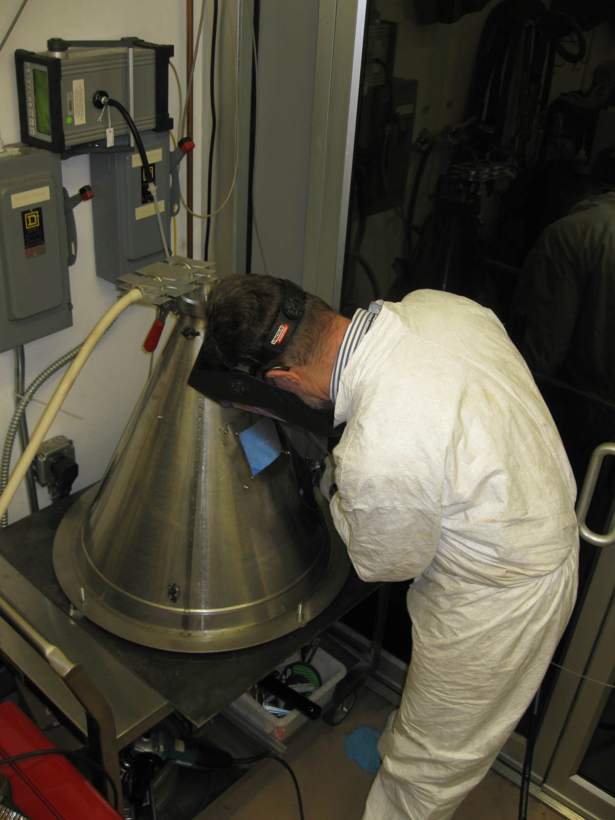 The photo shows welding in an enclosed chamber to collect welding fumes for analysis and characterization. The goal is to identify and improve welding processes that generate as little fume, and especially as little hexavalent chromium, as possible, while maintaining good quality welds. Welders have increased incidences of lung cancers and other respiratory diseases, and this is an opportunity to apply chemistry and engineering to find ways to minimize workplace hazards. Stopping or slowing hazards at the source can be especially useful, and make engineering controls and other techniques even more effective.